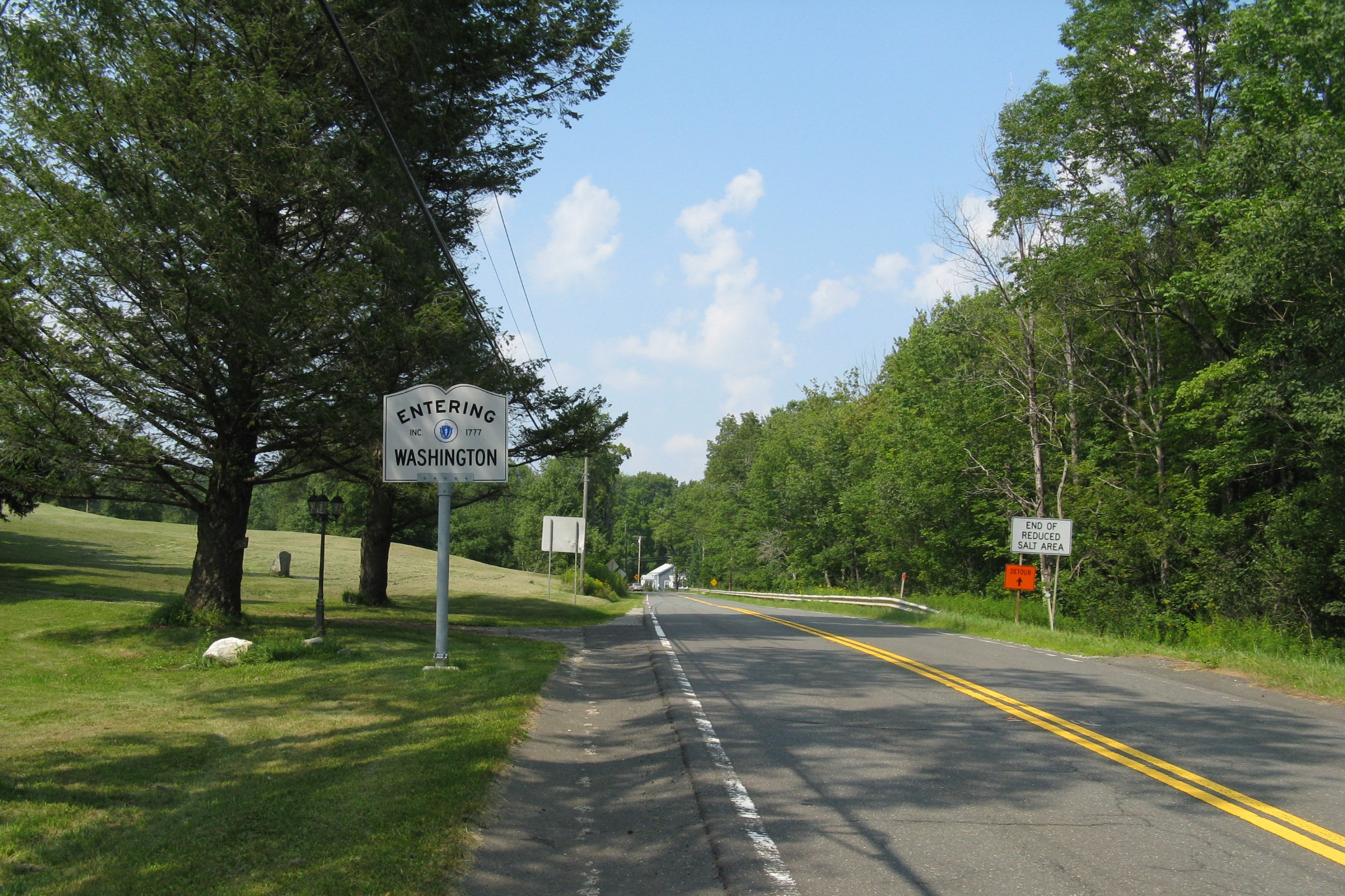 New England Interstate Route 8 entering Washington Massachusetts